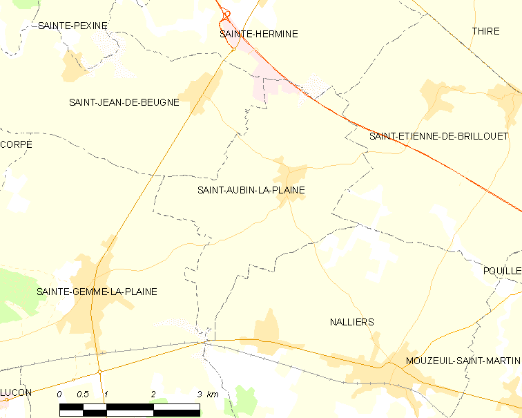 Map of French municipality Saint-Aubin-la-Plaine